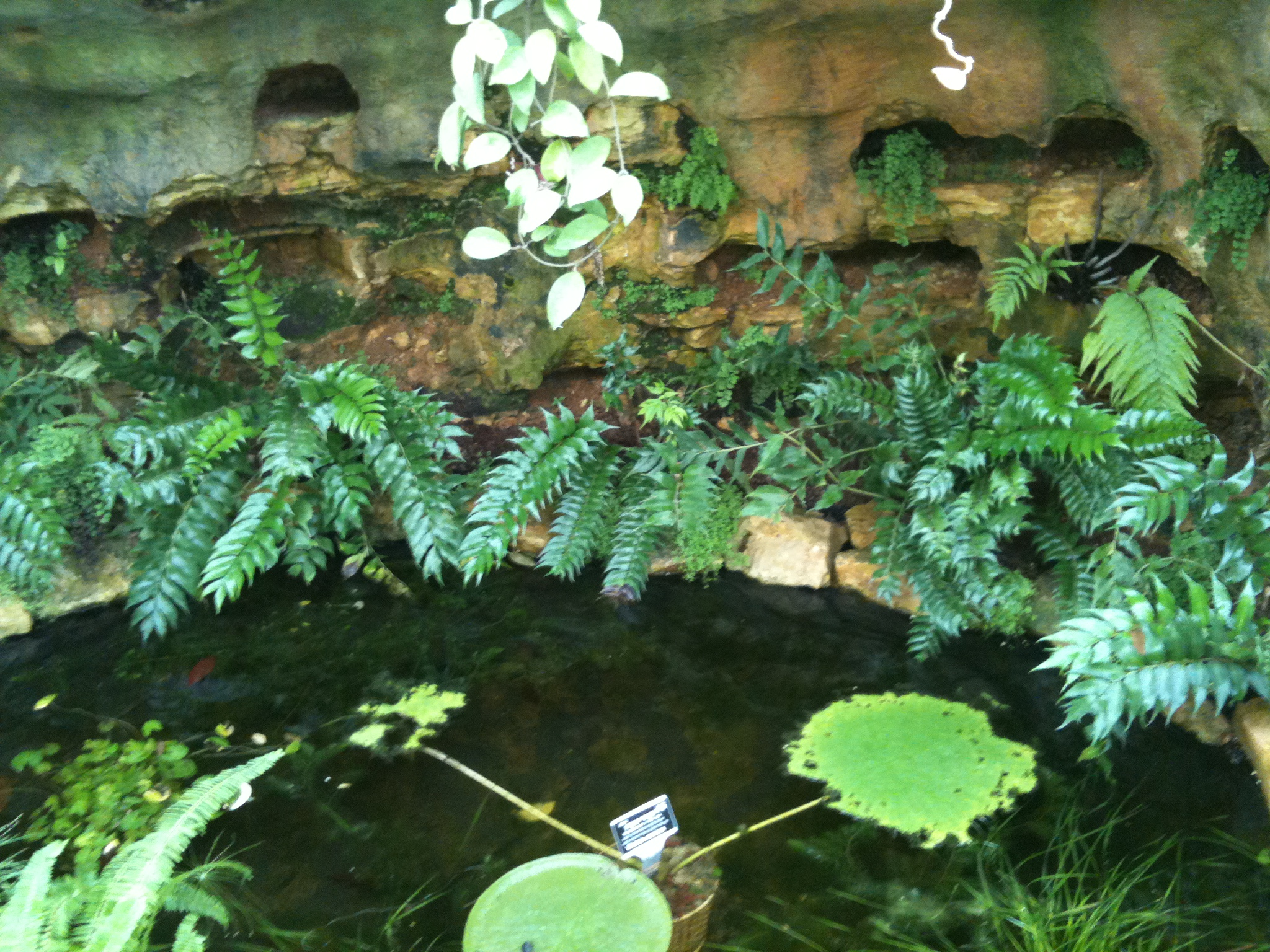 A Dovecote in the Tropical Greenhouse at the Jerusalem Botanical Gardens, G. Ram, Jerusalem, Israel.